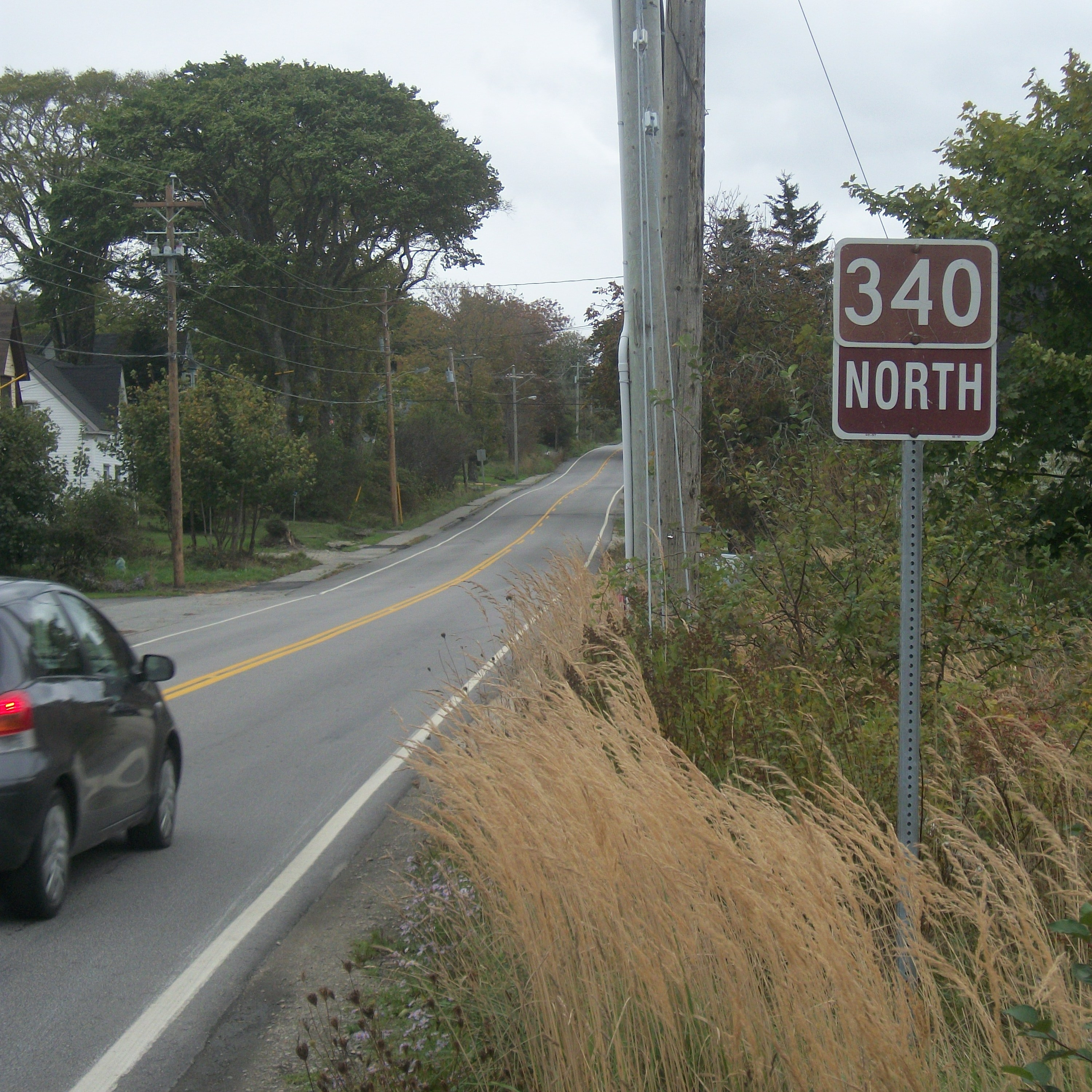 Route sign, Hebron, Nova Scotia